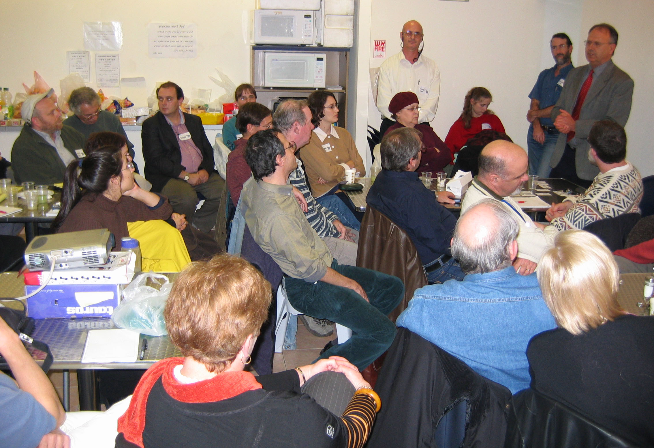 Workshop on "Using FrameScript" by Shlomo Peretz. Held for technical writers from all over Israel in the Cafeteria of Lumenis in Yokneam (Jan. 2005)